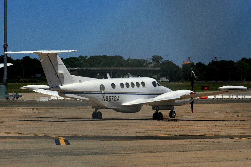 A Beechcraft 200T Super King Air (N857GA) at Sydney Airport.